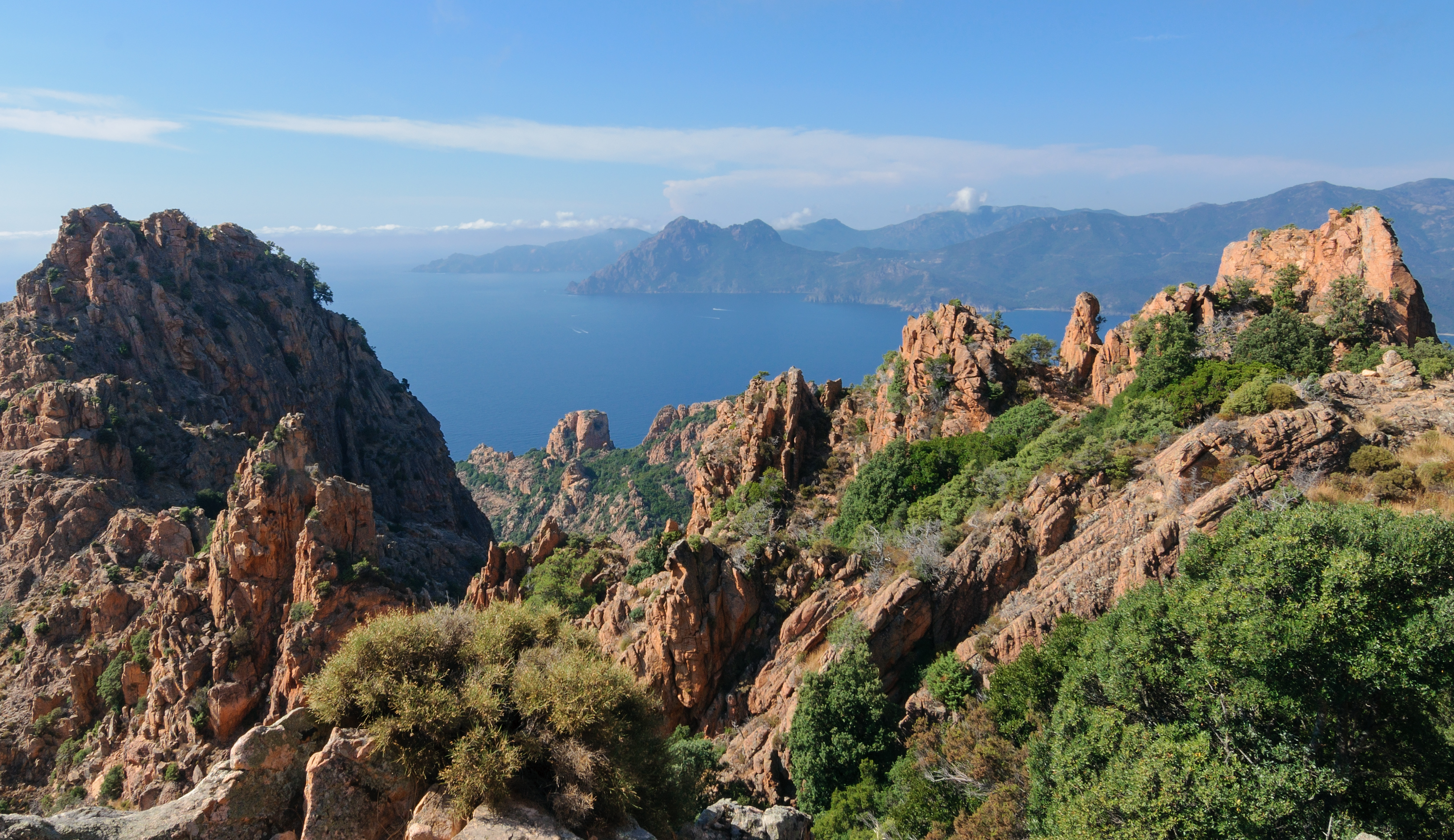 Piana, Southern Corsica, France : the Calanques of Piana.